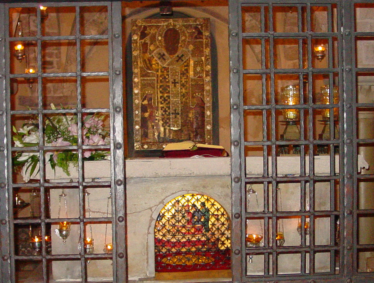 The Relics of Saint Nicholas